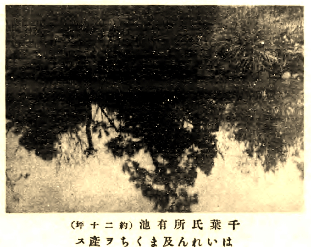 Jono-ike pond research report attached Old photos of pond Mr.Chiba owns